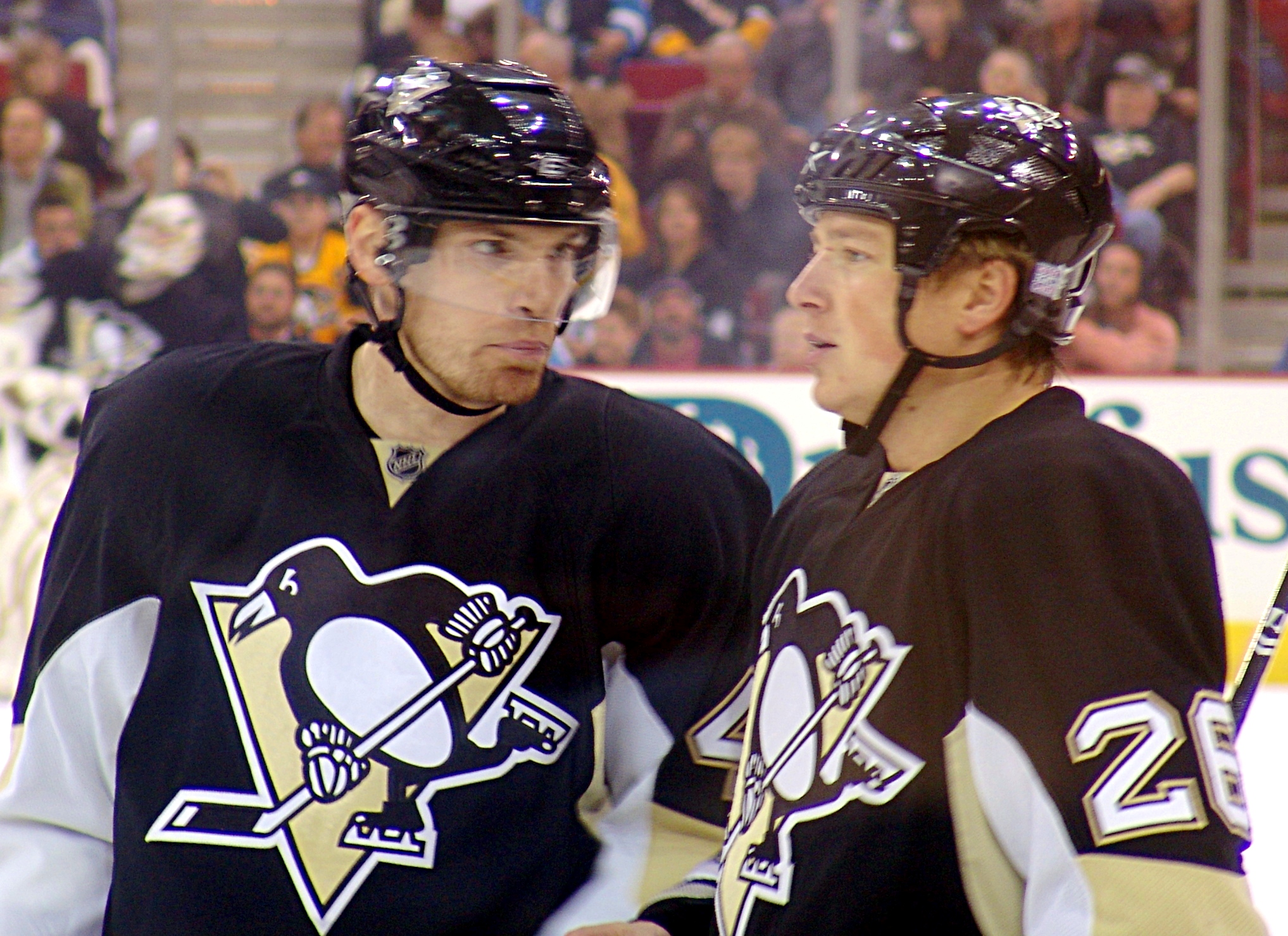 Pittsburgh Penguins Martin Skoula (left) and Ruslan Fedotenko during a game against the Tampa Bay Lightning, October 31, 2009 at Mellon Arena in Pittsburgh, PA.